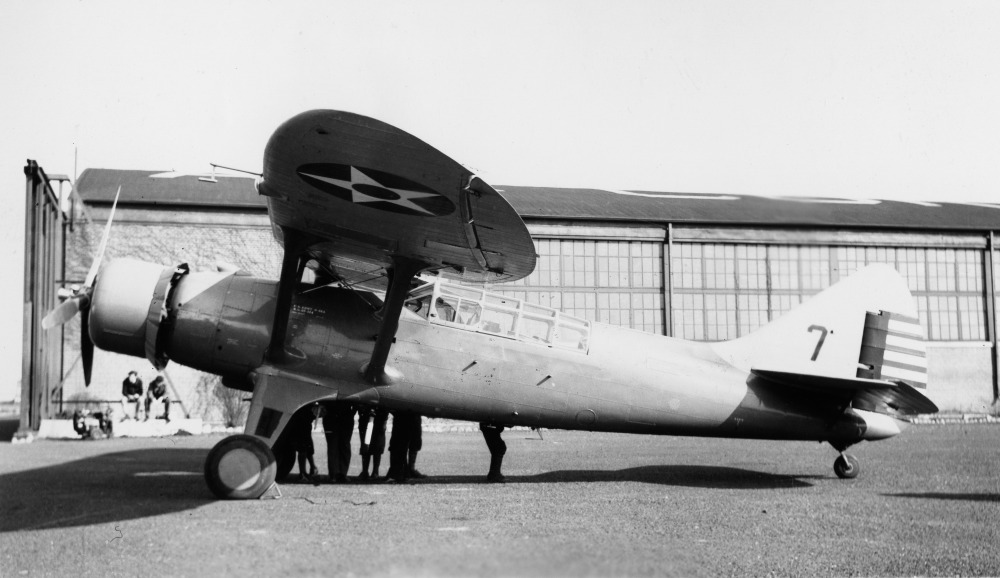 PictionID:40973026 - Title:Douglas O-46A 35-214 - Catalog:15_002786 - Filename:15_002786.tif - Image from the Charles Daniels Photo Collection album "US Army Aircraft."----PLEASE TAG this image with any information you know about it, so that we can permanently store this data with the original image file in our Digital Asset Management System.----SOURCE INSTITUTION: San Diego Air and Space Museum Archive